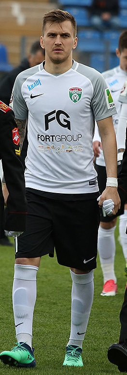 Maksim Paliyenko with FC Tosno in a game against FC Dynamo Moscow.